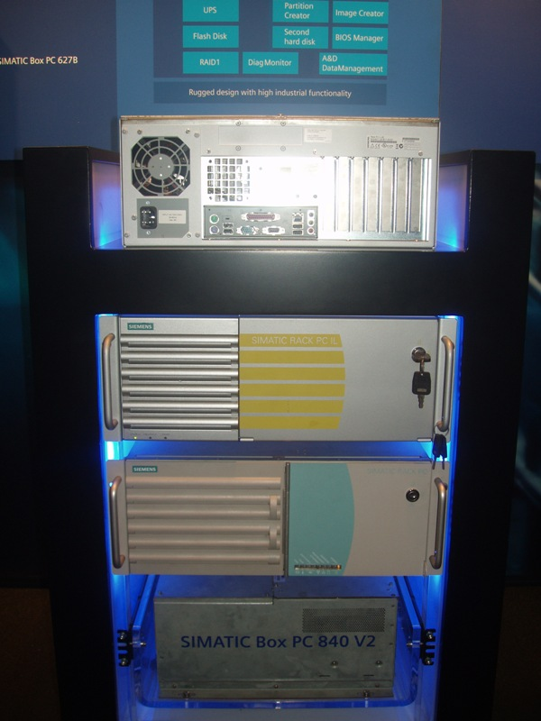 Siemens SIMATIC Industrial PC, from top till down SIMATIC Rack PC IL43 (backside), SIMATIC Rack PC IL43 (frontside), SIMATIC Rack PC 840 V2 (frontside), SIMATIC Box PC 840 V2